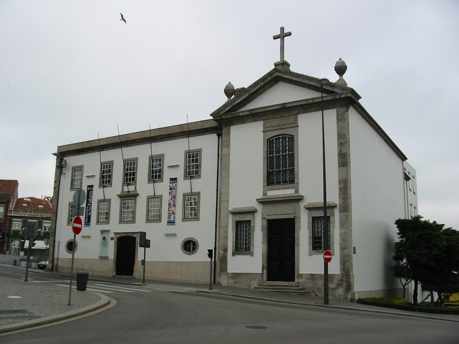 ULP Building at civil parish of Sé, Porto, Portugal